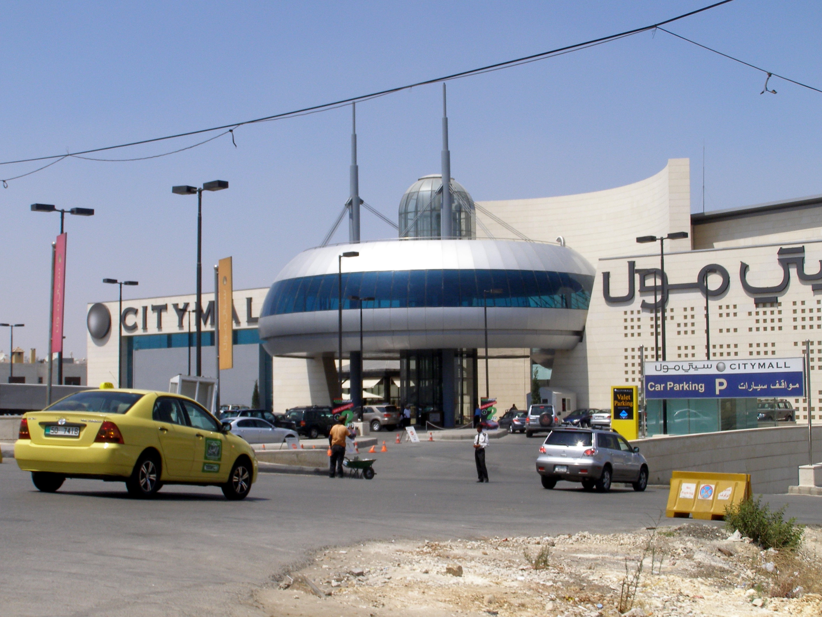 City Mall Amman